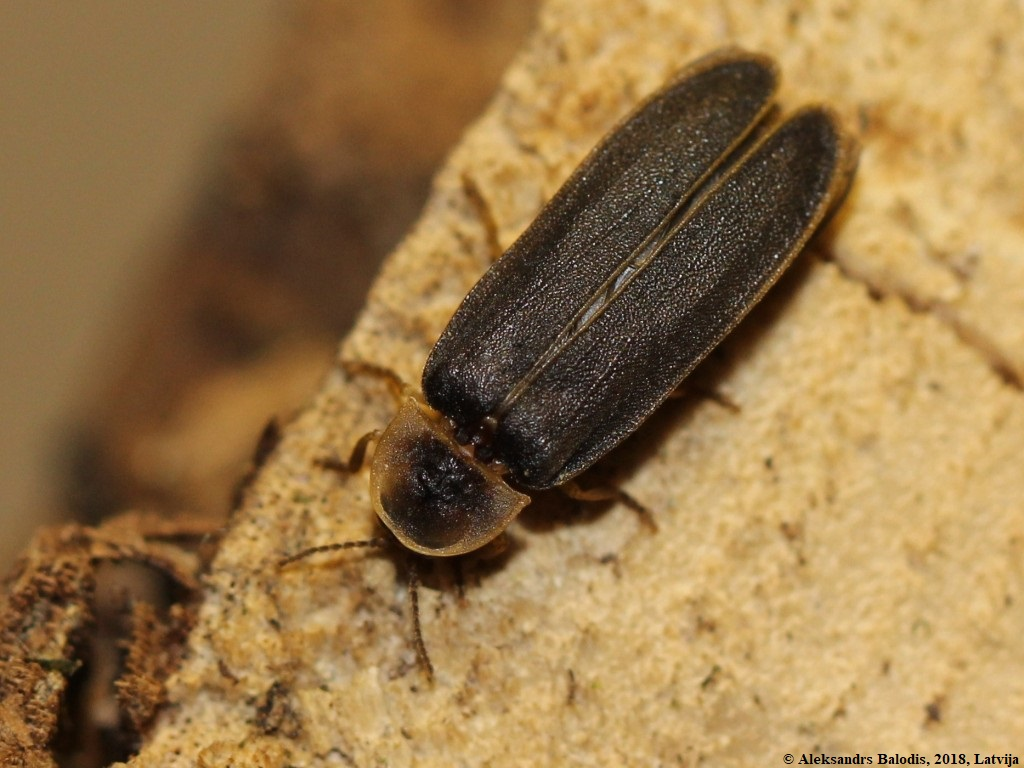 Lampyris noctiluca